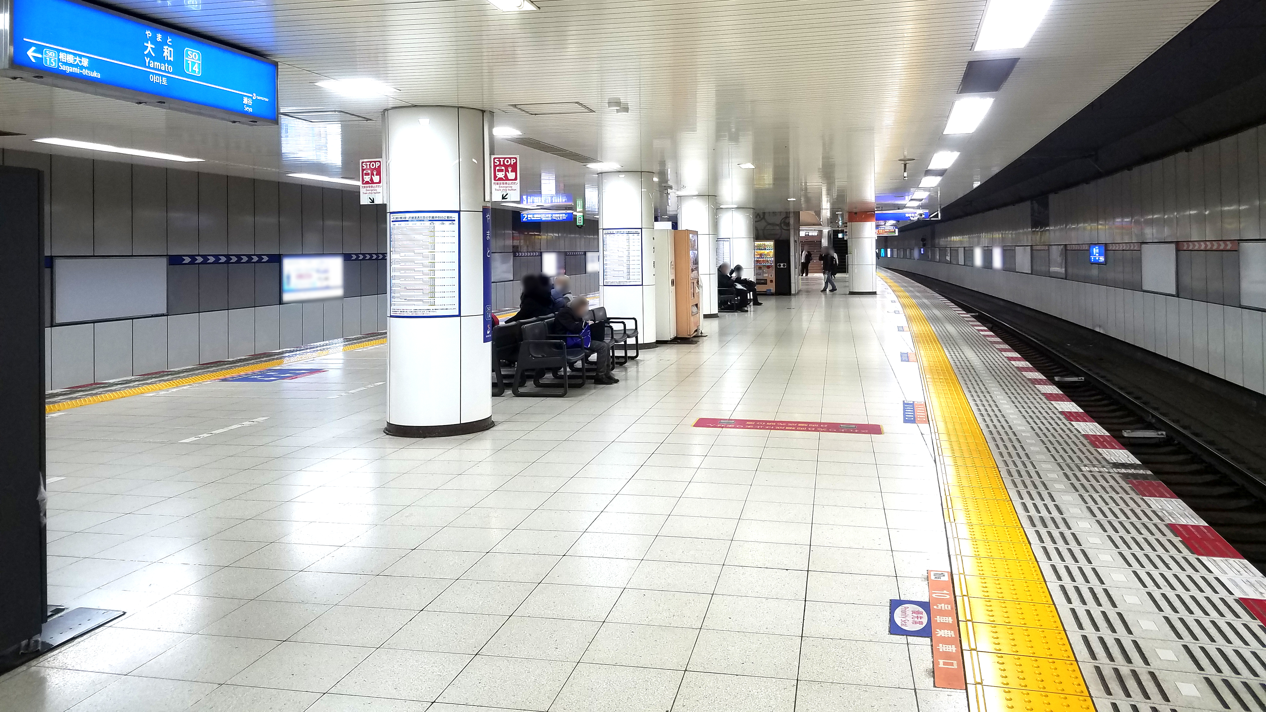 The platform at Yamato Station on the Sagami Railway Main Line in Yamato city, Kanagawa prefecture, Japan